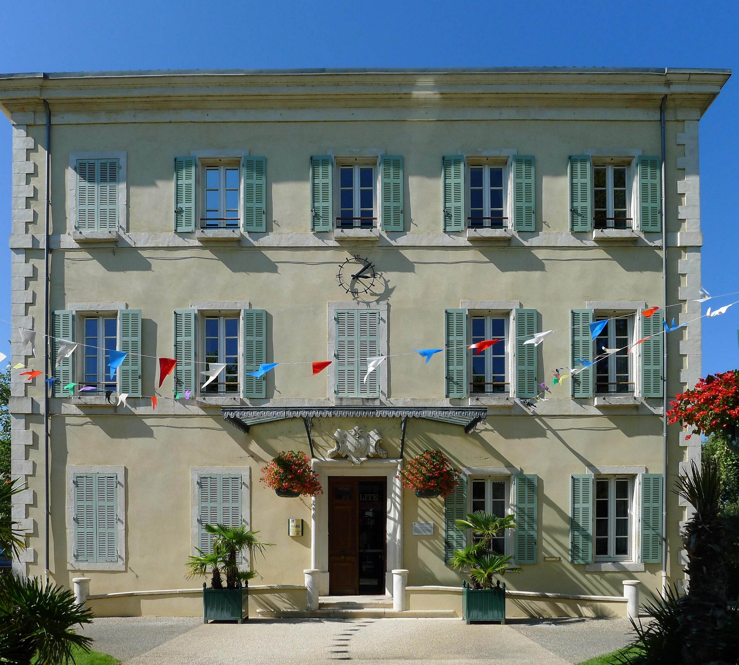 Town hall of Châteauneuf-du-Rhône - Drôme - France